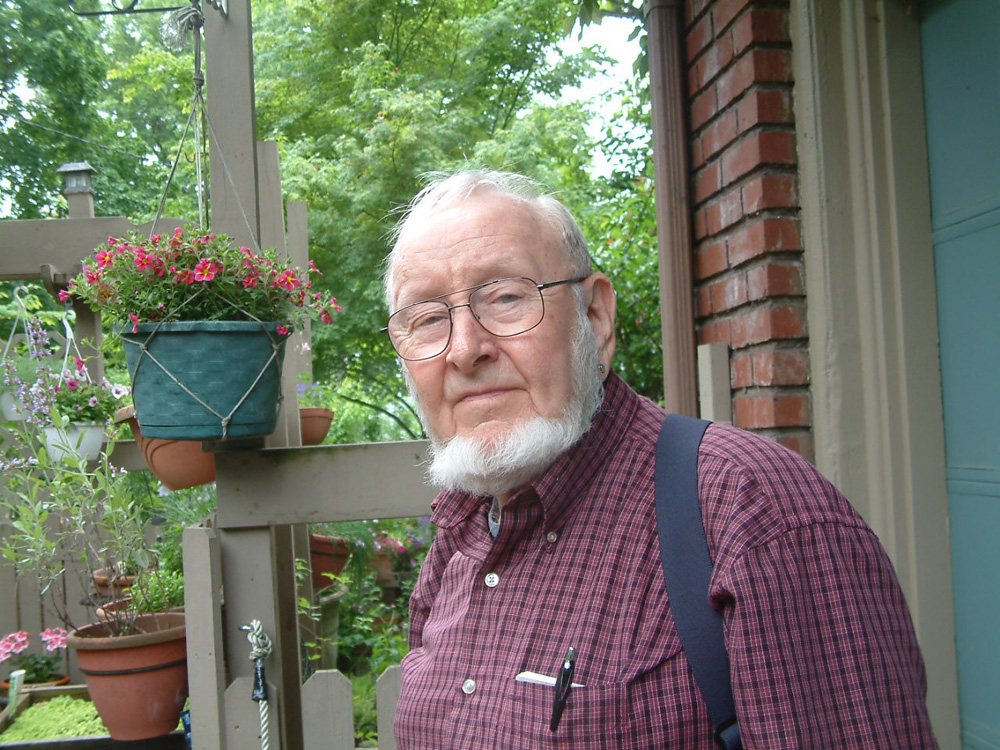 Don Drumm, sculptor, Akron Ohio USA, May 27, 2013